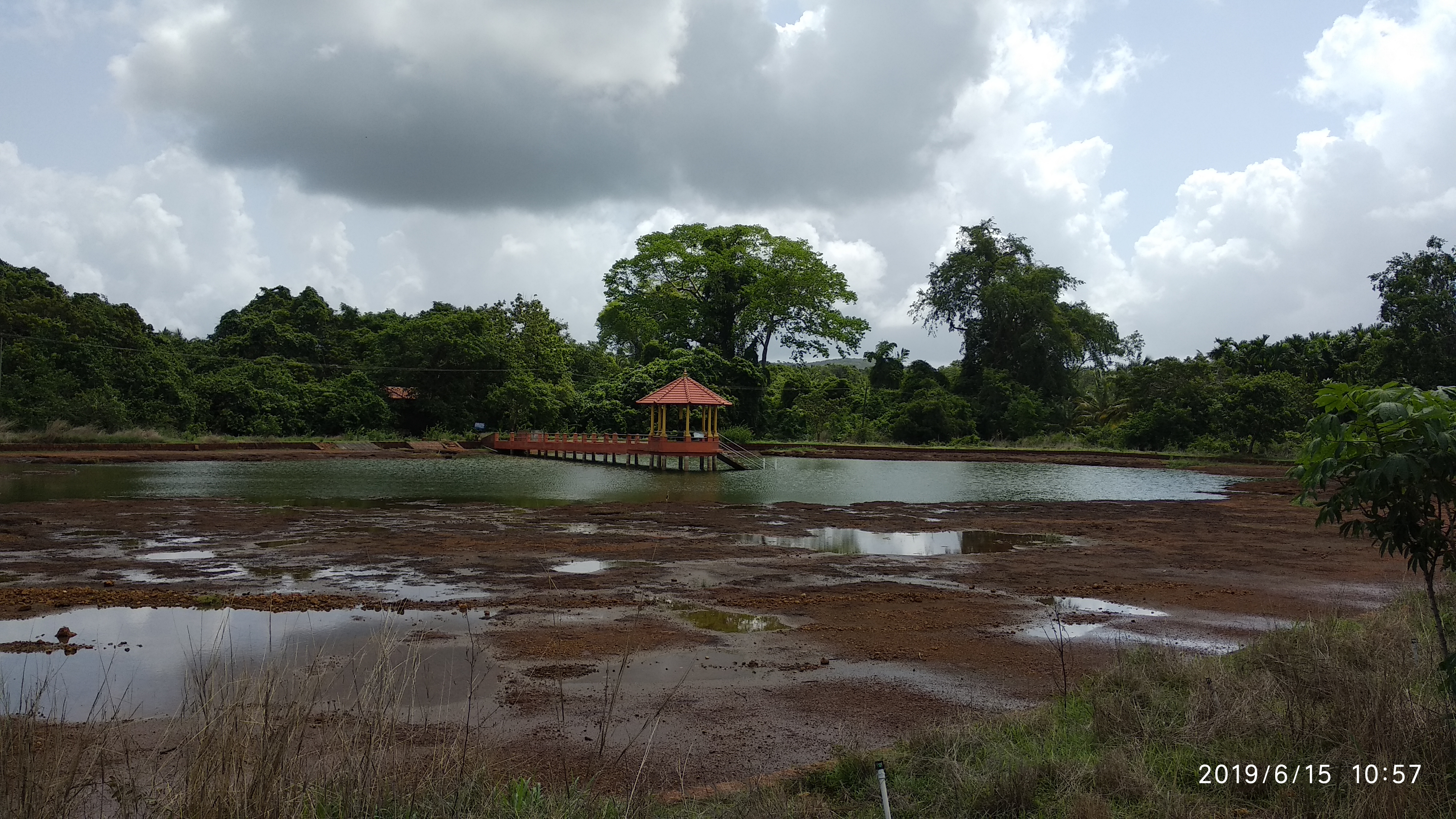 Pallam is a water source. It is a good source of drinking water to the wild life.